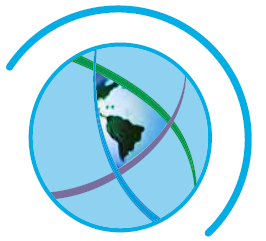 CISDL logo